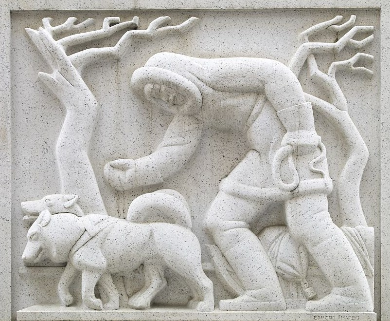 Bas-relief, "Mail Delivery North", Nix Federal Bldg, Philadelphia, 1937